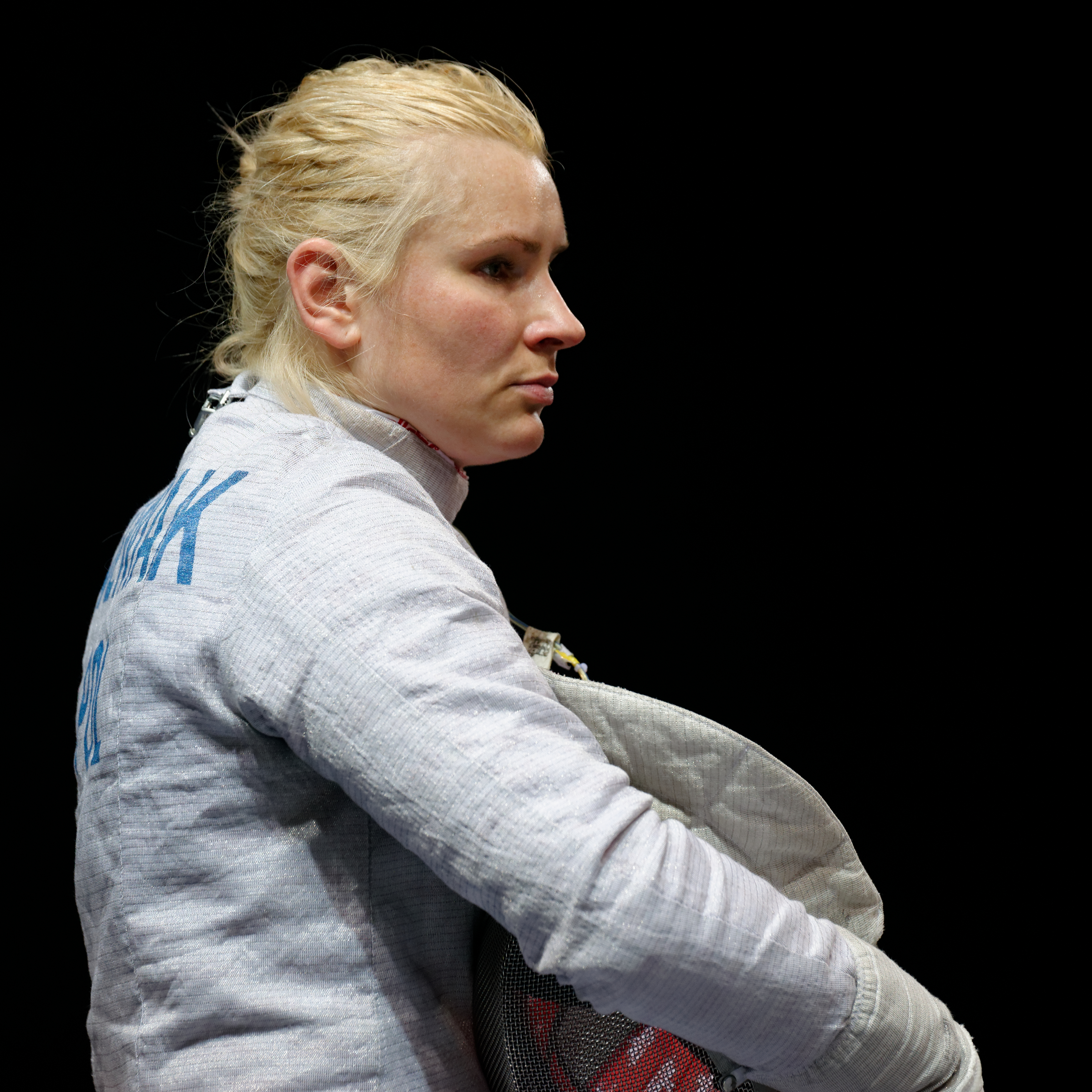 Bogna Jóźwiak of Poland during their match for the 5th place against Italy in the women's team sabre event at the European Fencing Championships at Rhénus Sport in Strasbourg on 13 June 2014.